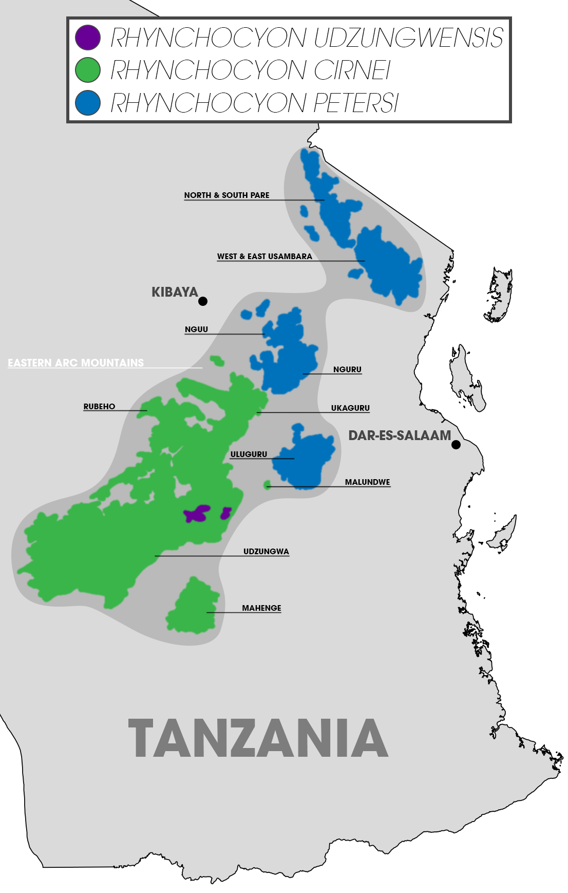 Location of Rhynchocyon elephant shrews in the Eastern Arc Mountains of Tanzania. Species distributions are limited to small forest patches within each mountain range (marked with black pointers).[1] Blue: Rhynchocyon petersi Green: Rhynchocyon cirnei Purple: Rhynchocyon udzungwensis.